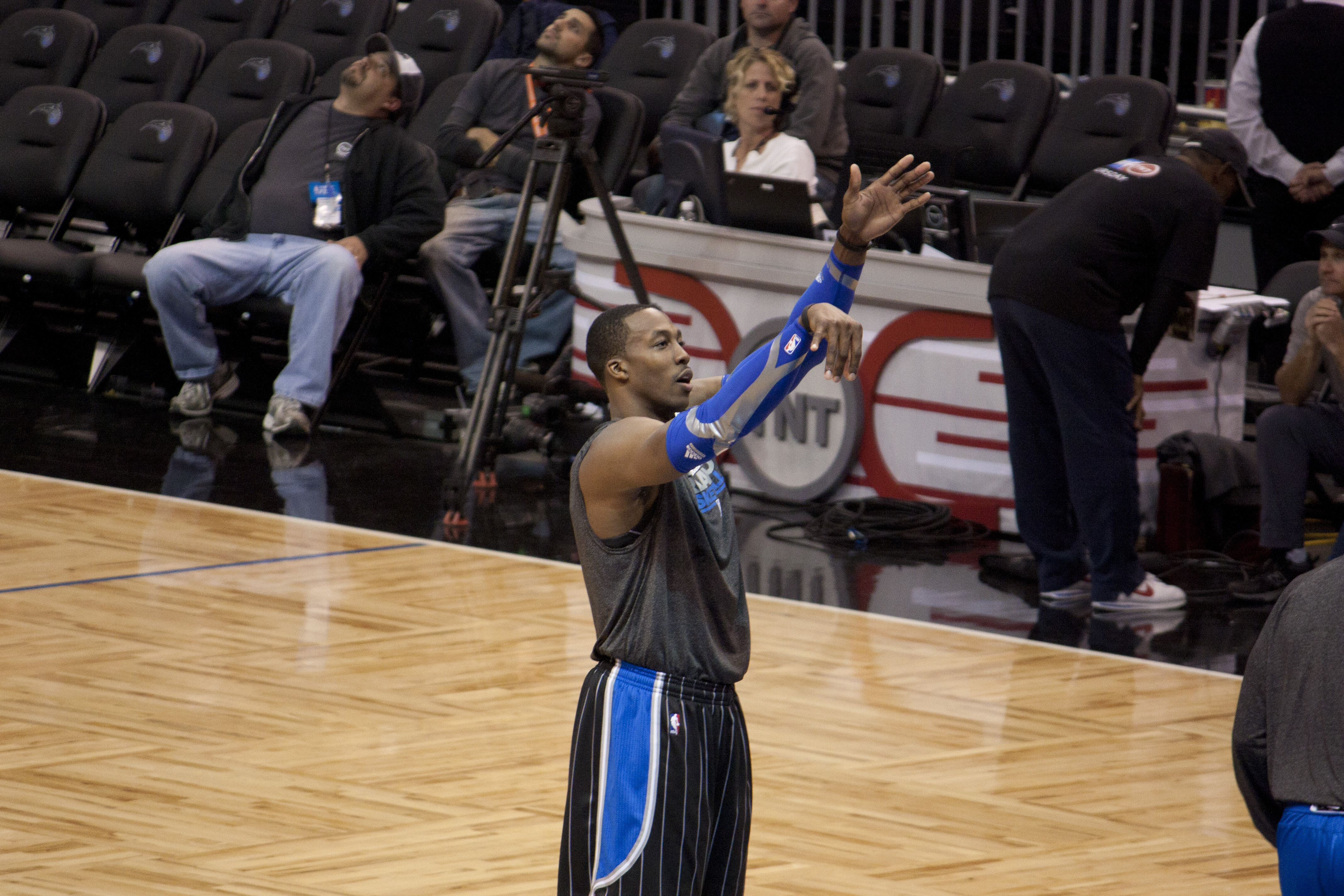 Dwight Howard before a game against the Spurs.